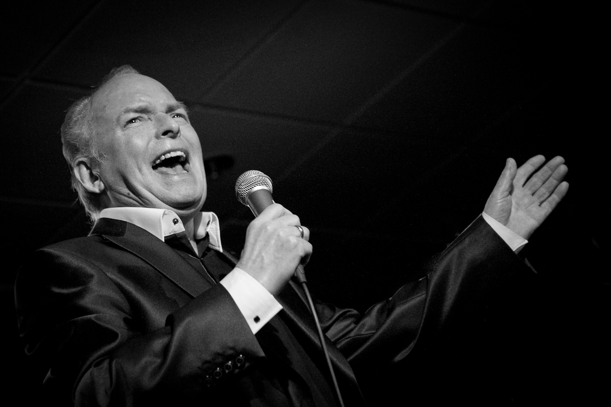 Danish singer Peter Belli, Vanløse, February 2011.